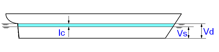 freshwater allowance